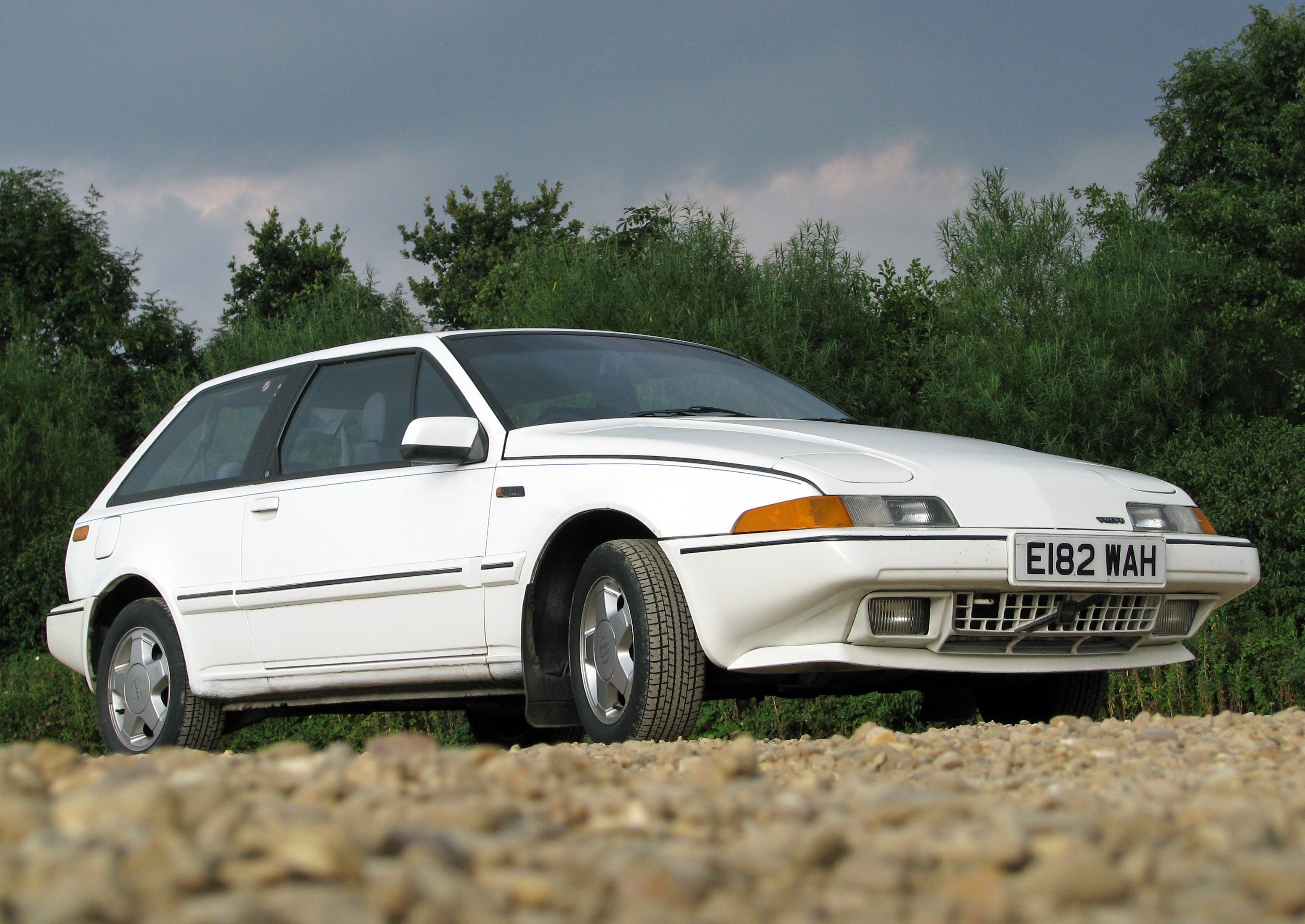 A 1988 Volvo 480ES 1.7, with headlamps lowered, in Peterborough, Cambridgeshire, England.